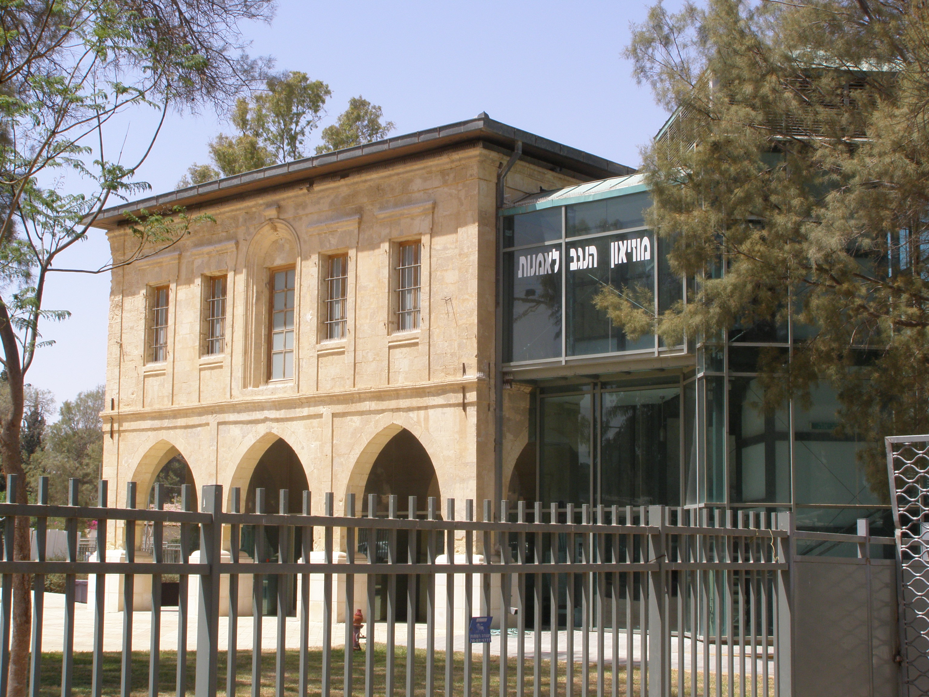 Beersheba, Old City, The Negev Art Museum